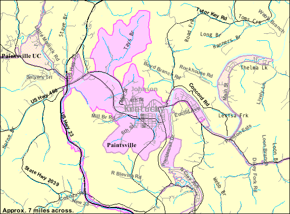 U.S. Census map of Paintsville, Kentucky.